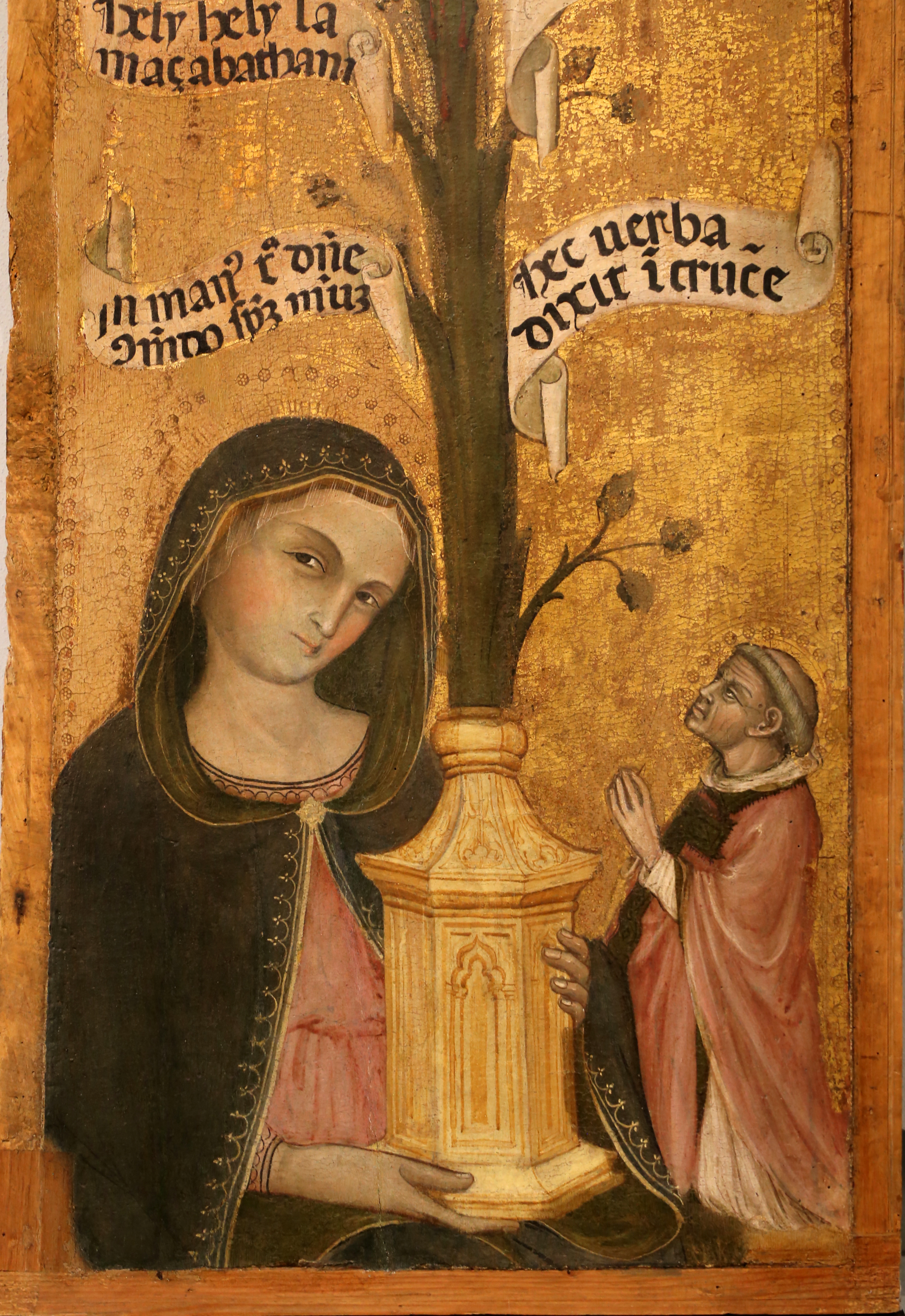 Paintings in the Museo nazionale d'Abruzzo